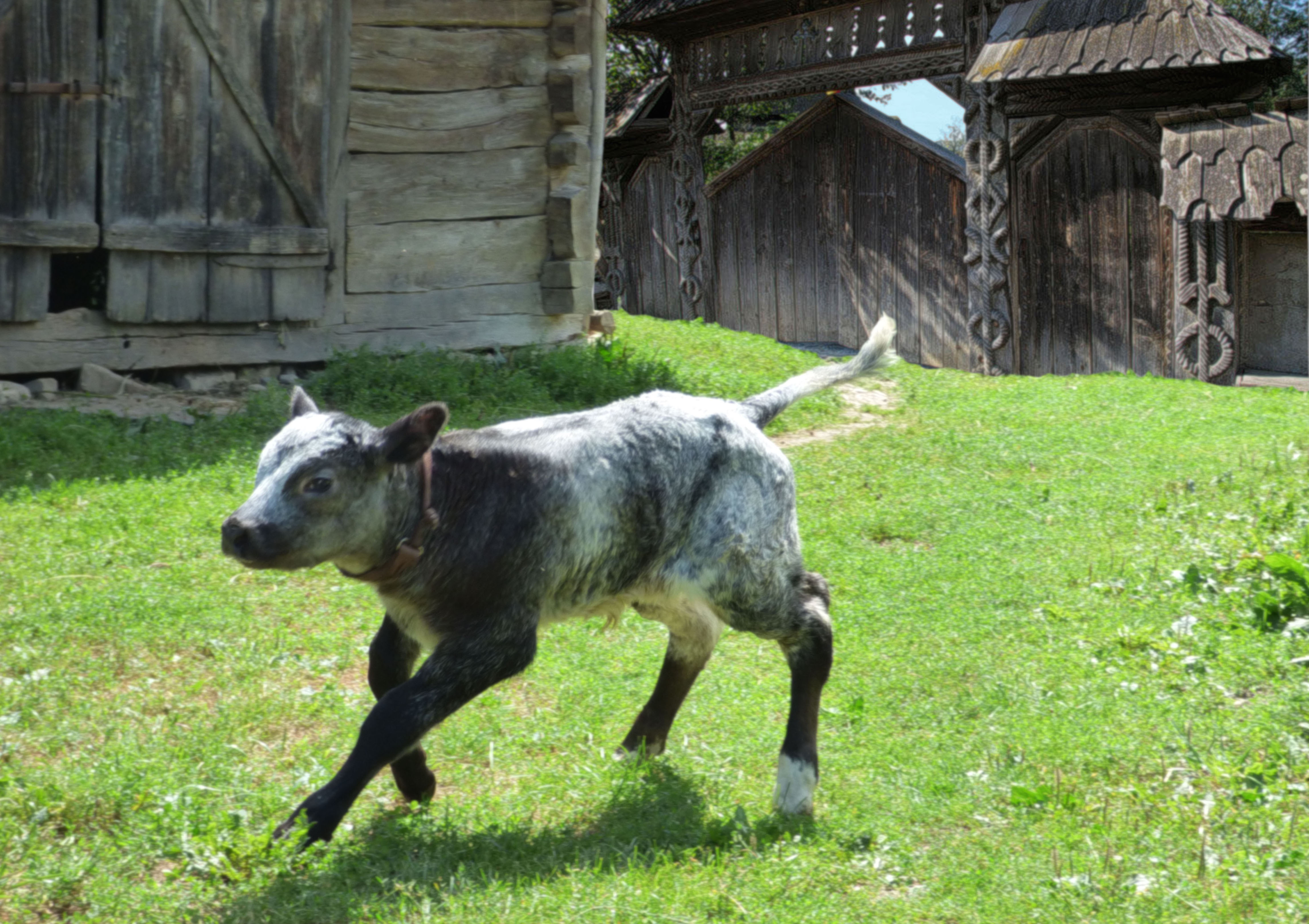 Calf of Maramures